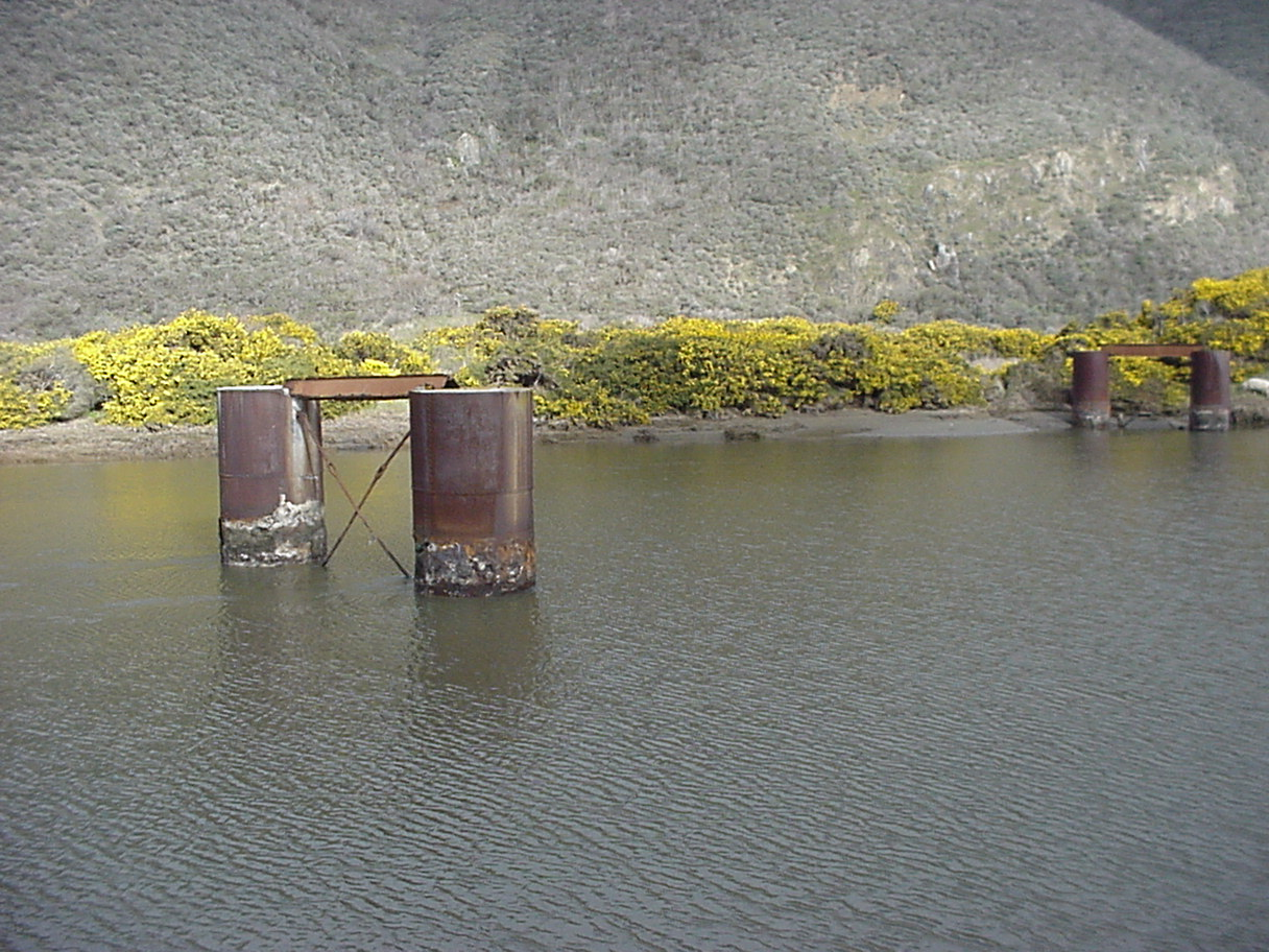 Bridge supports of the North Pacific Coast Railroad crossing of Keys Estuary near Tomales, California